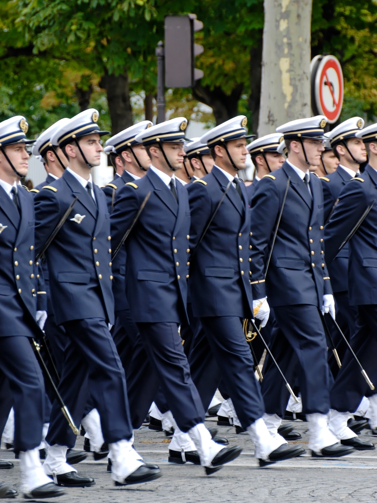 Cadets of the École navale (Naval academy) during the 2007 military parade on the Champs-Élysées.